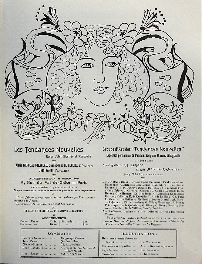 Table of contents of Les Tendance nouvelles Issue 01, with mention of a group of artists called Groupe d'art des Tendances nouvelles" (Paris).